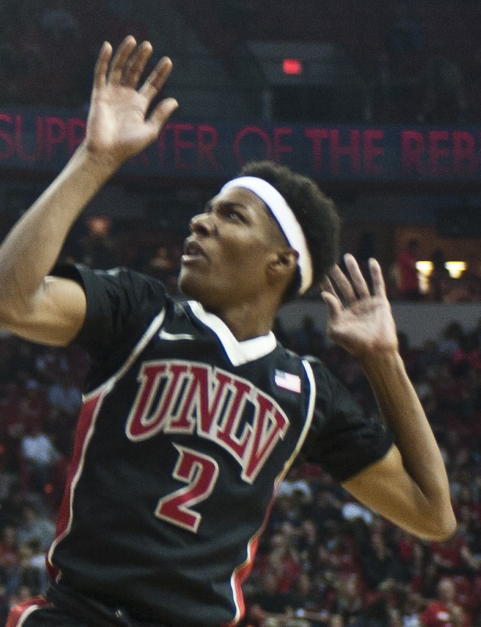 Patrick McCaw plays for UNLV during a home game vs. Air Force on January 31, 2015 at the Thomas & Mack Center in Las Vegas, Nevada, U.S.